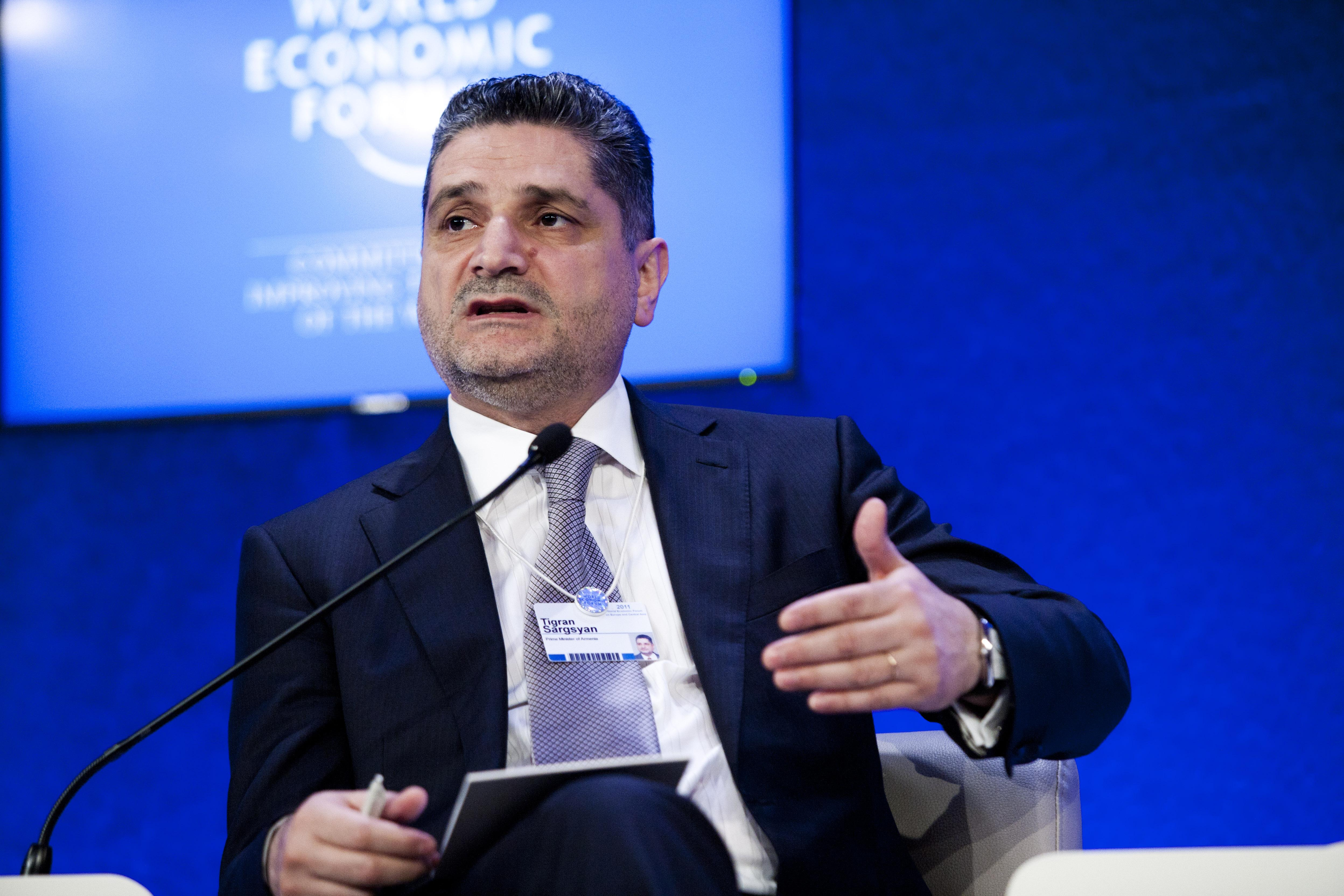 Armenian Premier Minister Tigran Sargsyan